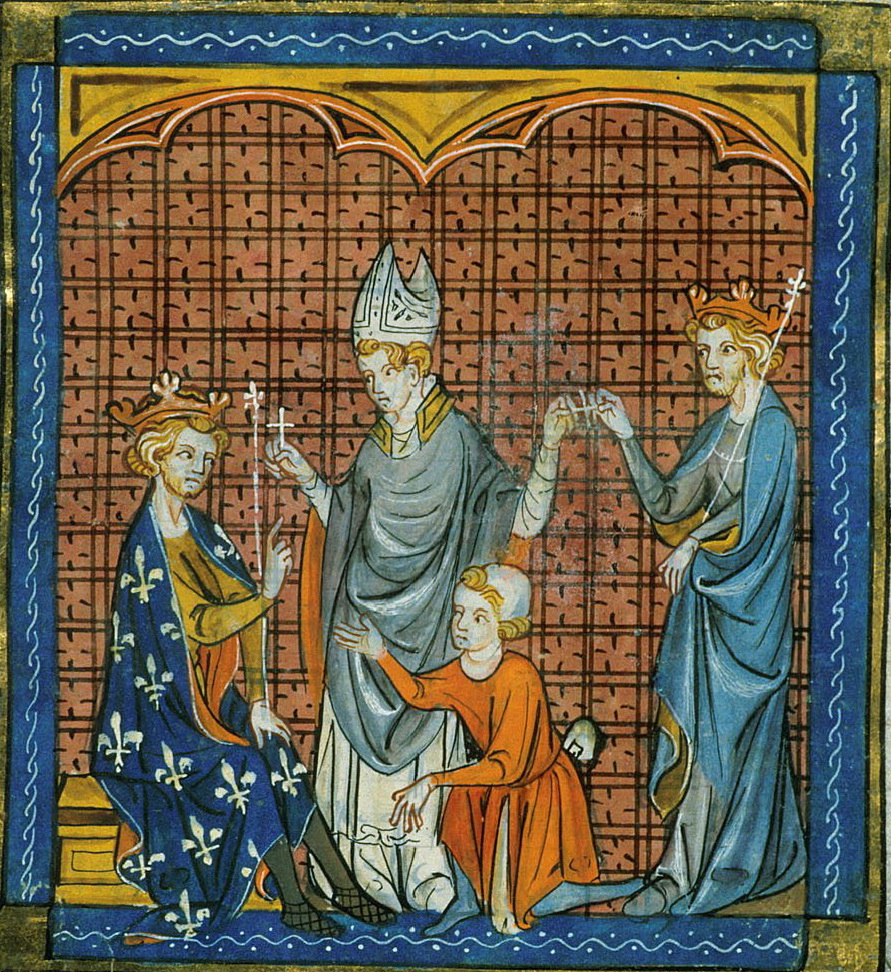 Third Crusade: Philip II August of France and Henry II of England taking the cross. (British Library, Royal 16 G VI f. 344v)